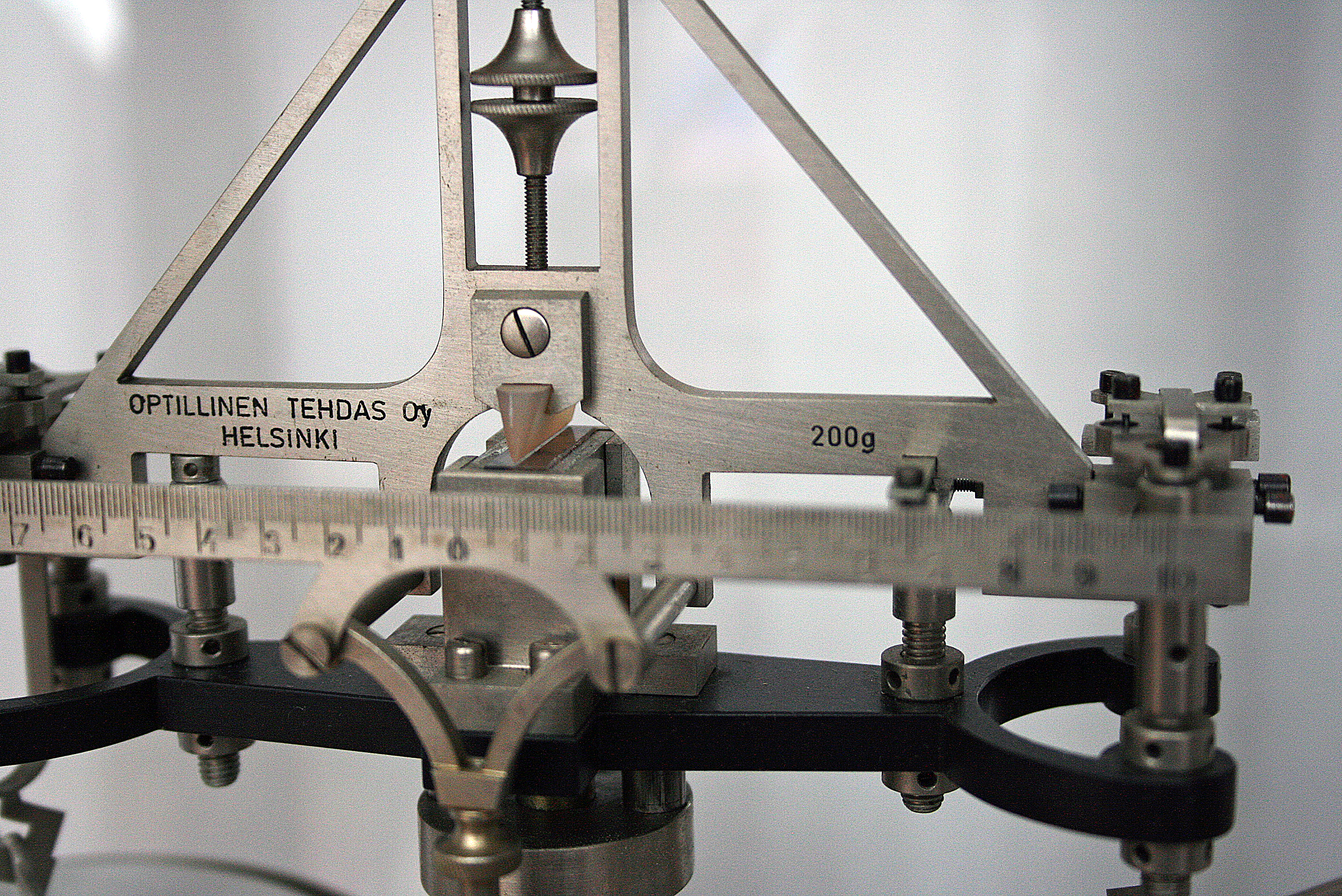 Detail of antique analytical balance.